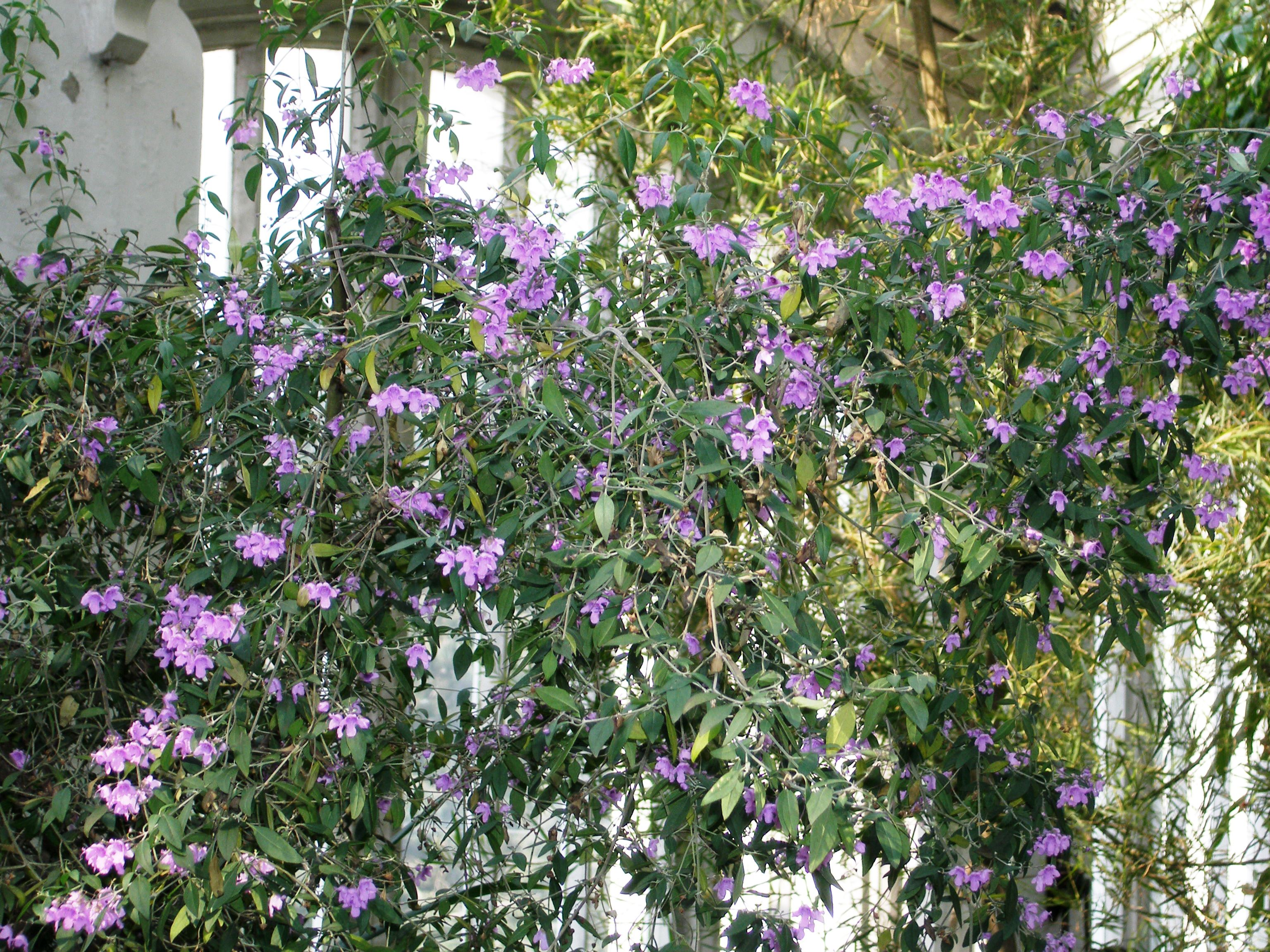 Specimen in cultivation at the Royal Botanic Gardens, Kew, United Kingdom.